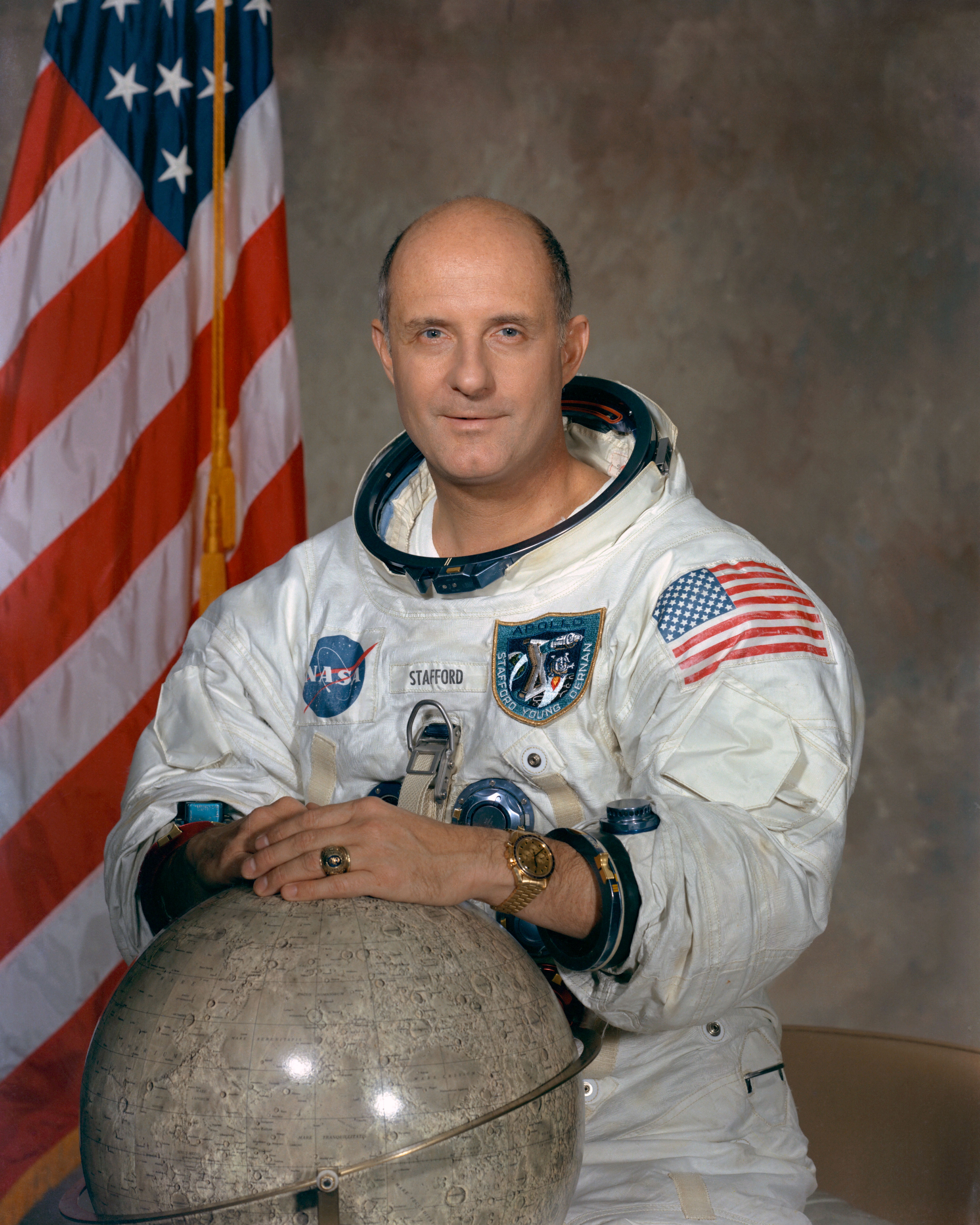 Portrait of Astronaut Thomas P. Stafford, wearing his space suit, with a globe of the Moon in front of him.